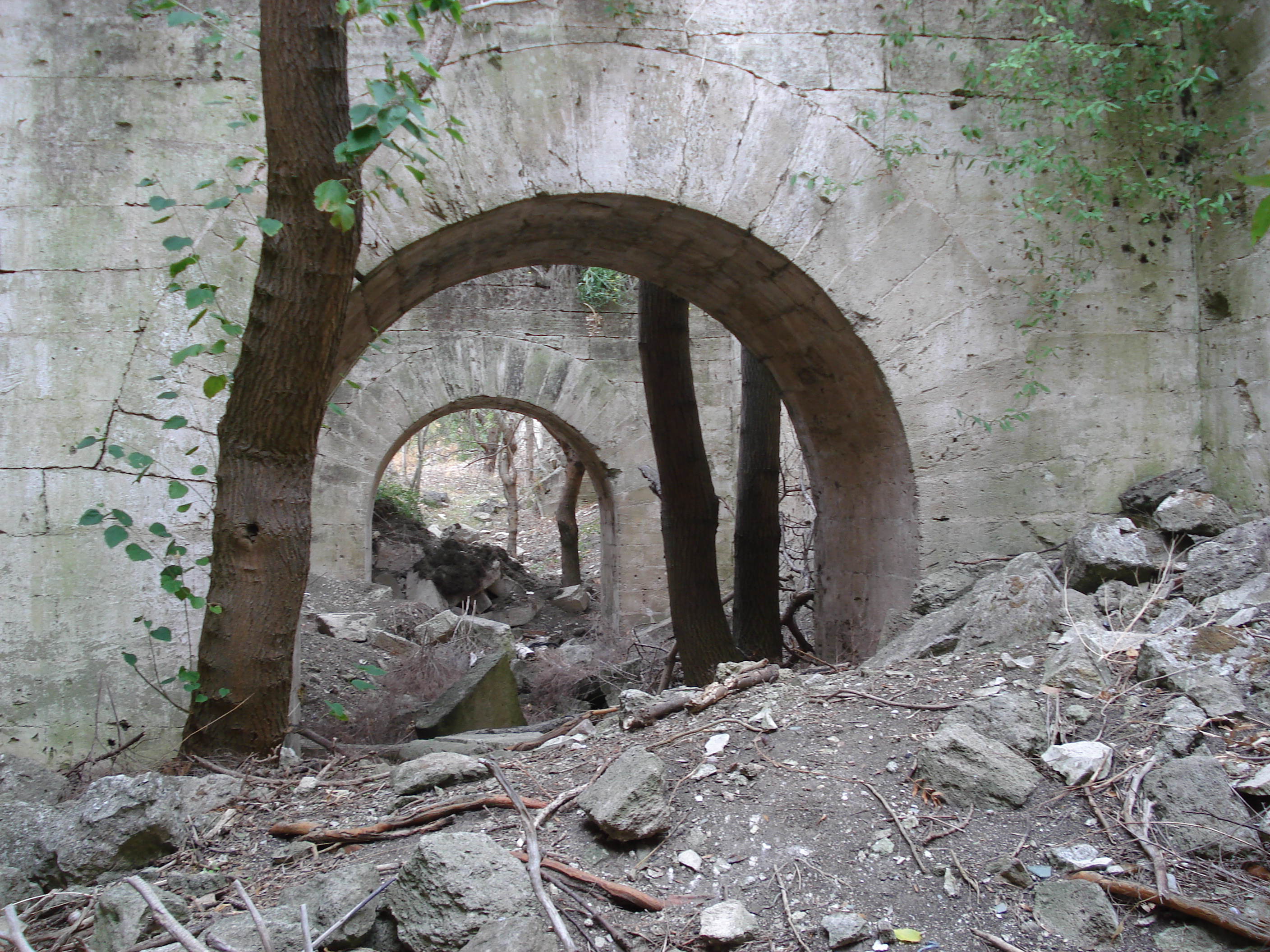 Fortress Kerch, in Crimea